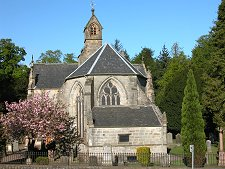 Photograph by resident.